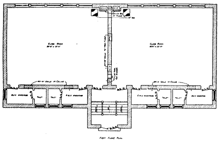 Michigan Rural School Plan No 9, First floor, 1915-1916